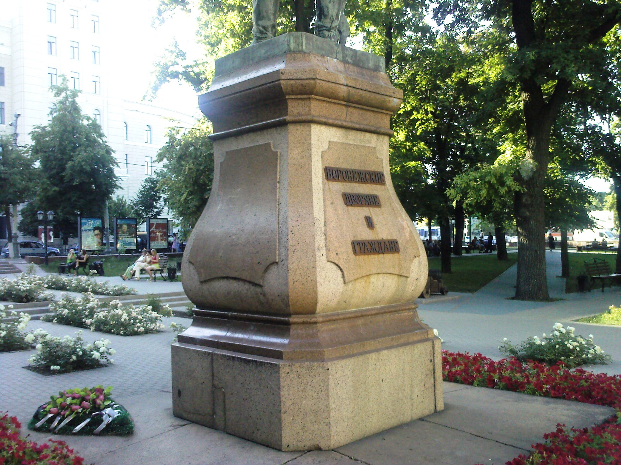 Peter_I_Monument_Pedistal